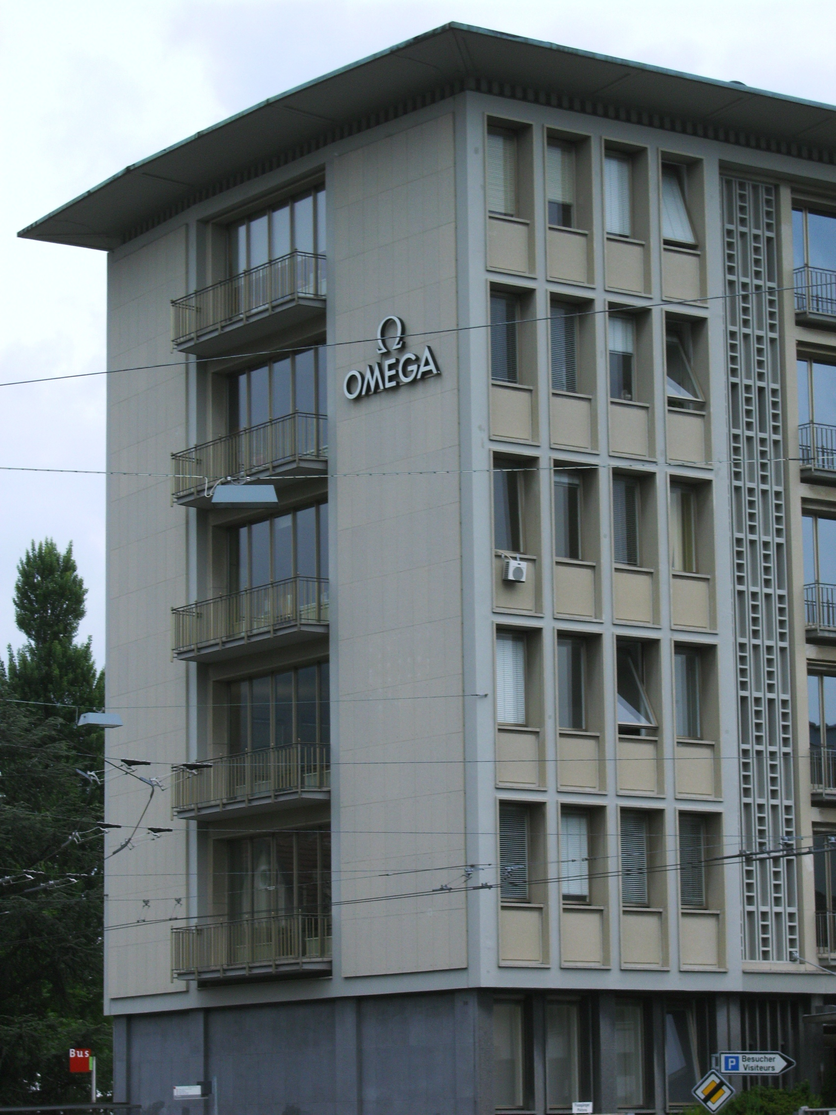 Image of one of the buildings of the watches maker Omega in Biel/Bienne, Switzerland.